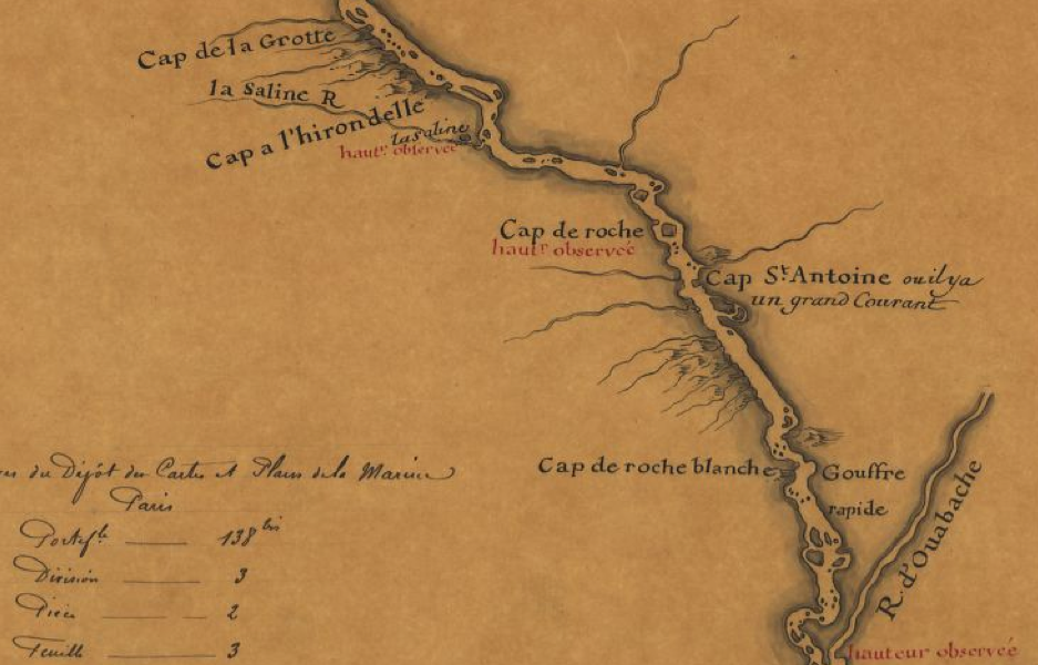 Map by Guillaume de L'Isle. Carte de la rivière de Mississipi : sur les mémoires de Mr. Le Sueur qui en a pris avec la boussole tous les tours et detours depuis la mer jusqu'à la rivière St. Pierre, et a pris la hauteur du pole en plusieurs endroits / Image courtesy Library of Congress.